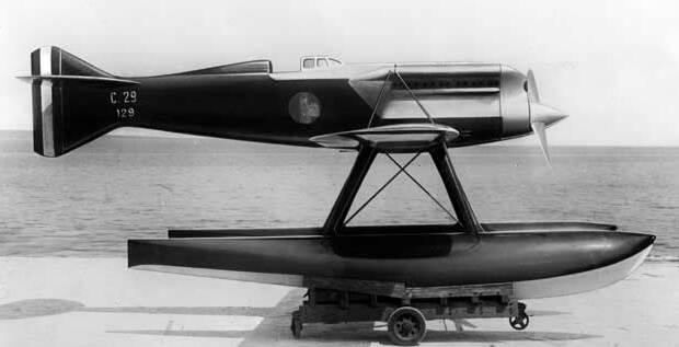 Italian Fiat C.29 racing floatplane